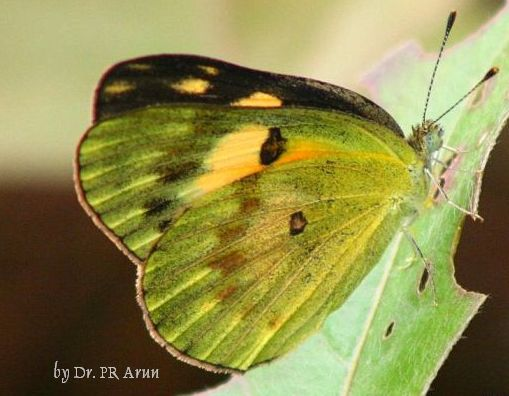 Salmon Arab butterfly (Colotis amata)